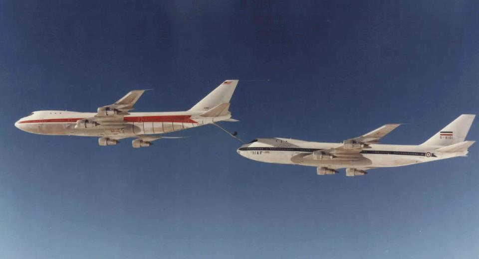 American Boeing 747 air-to-air Refuels an Boeing 747 of Imperial Iranian Air Force.